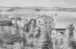 Aurora inn